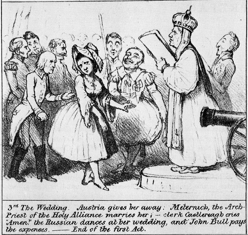 The Wedding of the Netherlands and Belgium (Treaty of Vienna of 1815)